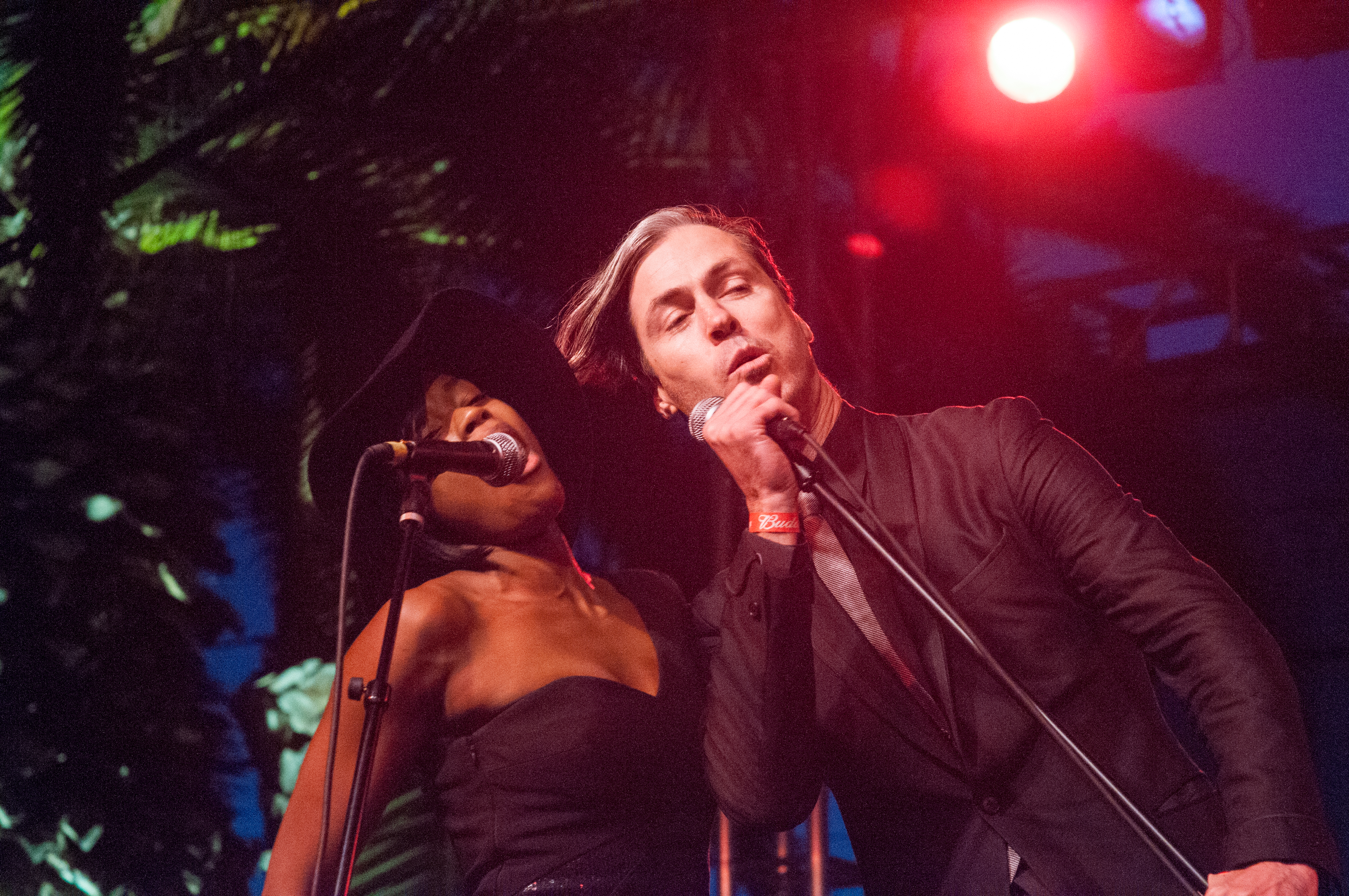 Fitz and the Tantrums performing in San Diego